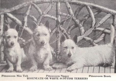 A photograph of three Pittenweem Terriers, one of the precursors to the West Highland White Terrier. Further details avaliable here.